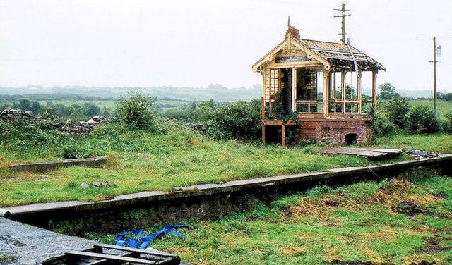 Old railway station, Ballyshannon: Ballyshannon was the penultimate station on a 35 mile branch from Bundoran Jct (near Trillick) to Bundoran. The line opened in 1866 and closed in 1957. This is the remains of the station showing the derelict GNR(I)-style signal